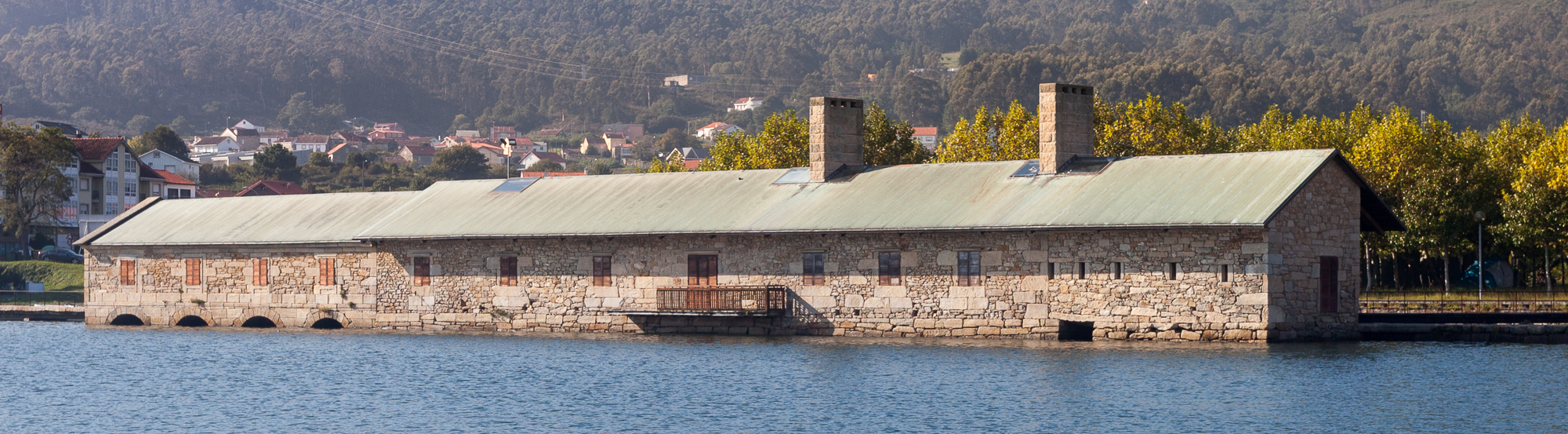 Mill of O Pozo do Cachón, Serres, Muros, Galicia (Spain).